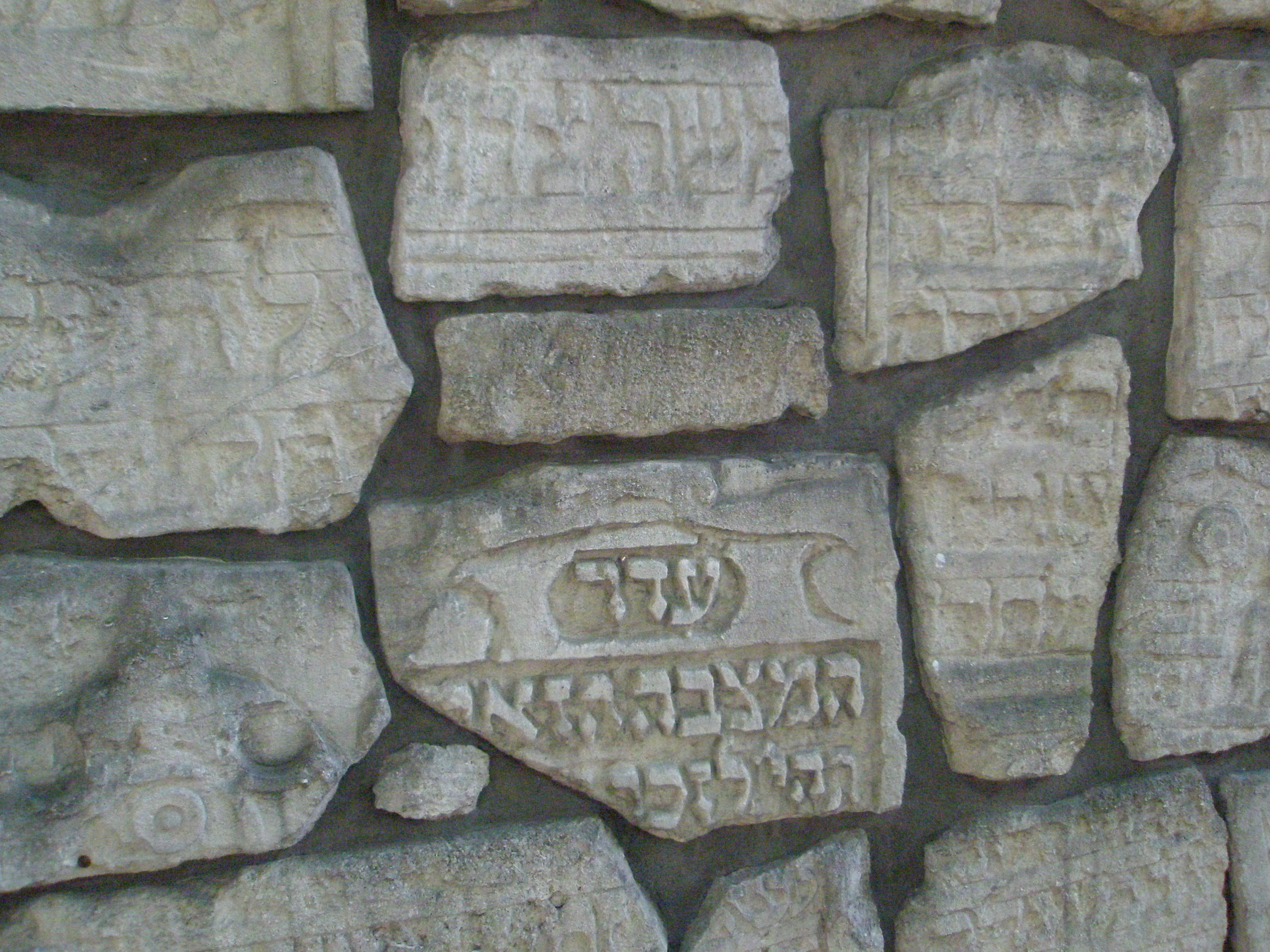 Wailing Wall in Remuh Cemetery (Krakow)